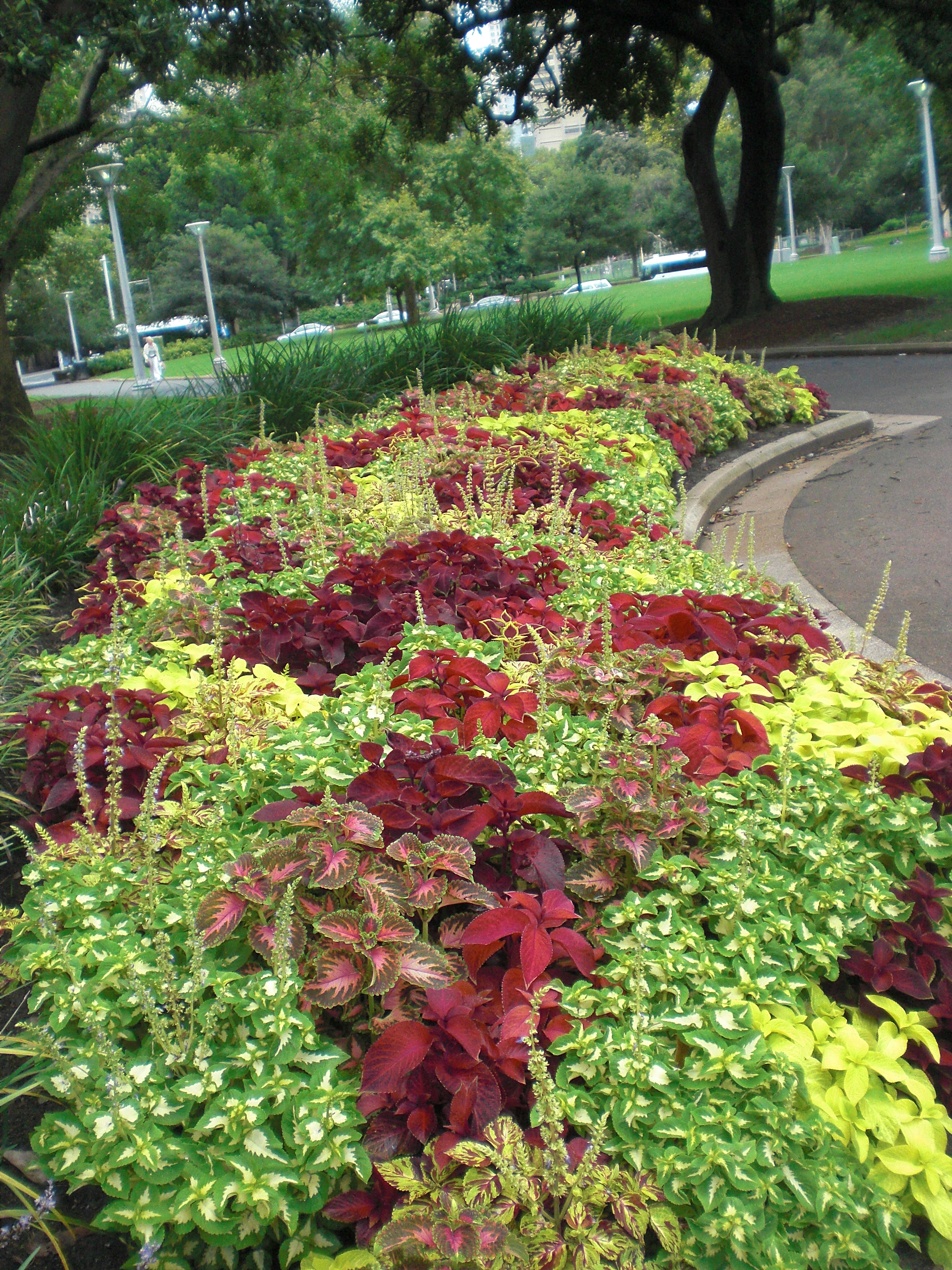 All Kinds of Coleus